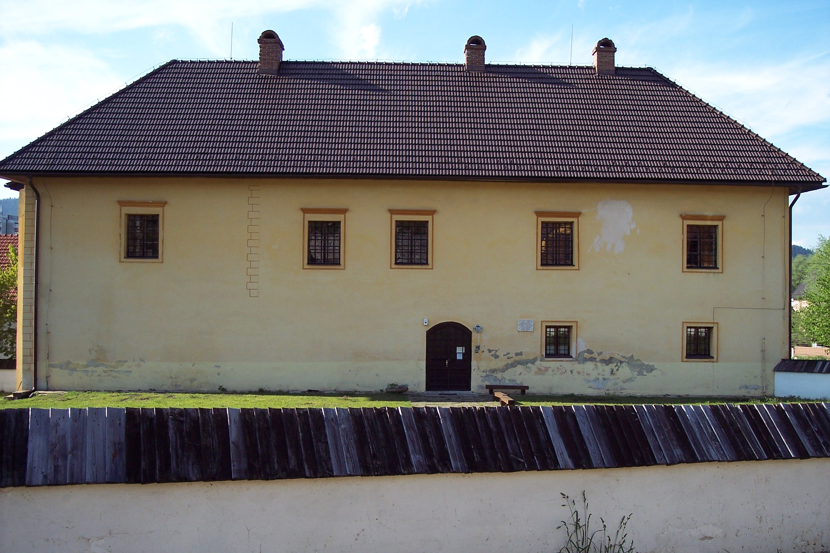 author: Janis Pavol